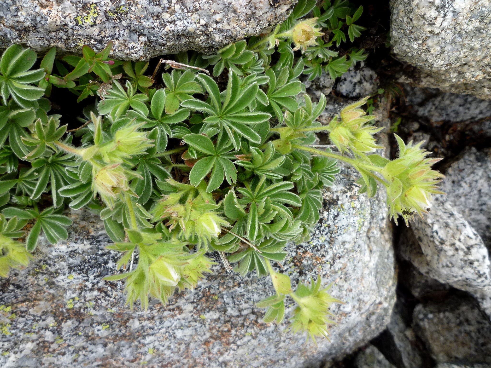 Potentilla nivalis. Near Estany Fosser, Cabdella (Pallars Jussà - Catalònia). To 2.150 m. altitude.